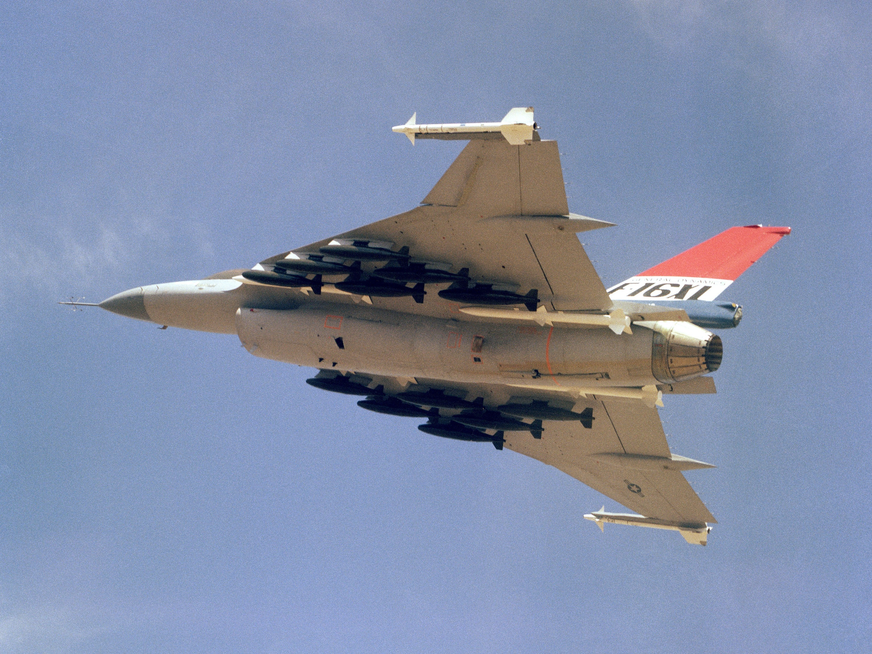 An air to air left underside view of an F-16XL aircraft. The aircraft is armed with two wing tip mounted AIM-9 Sidewinder and four fuselage mounted AIM-7 Sparrow missiles along with 12 500-pound bombs.